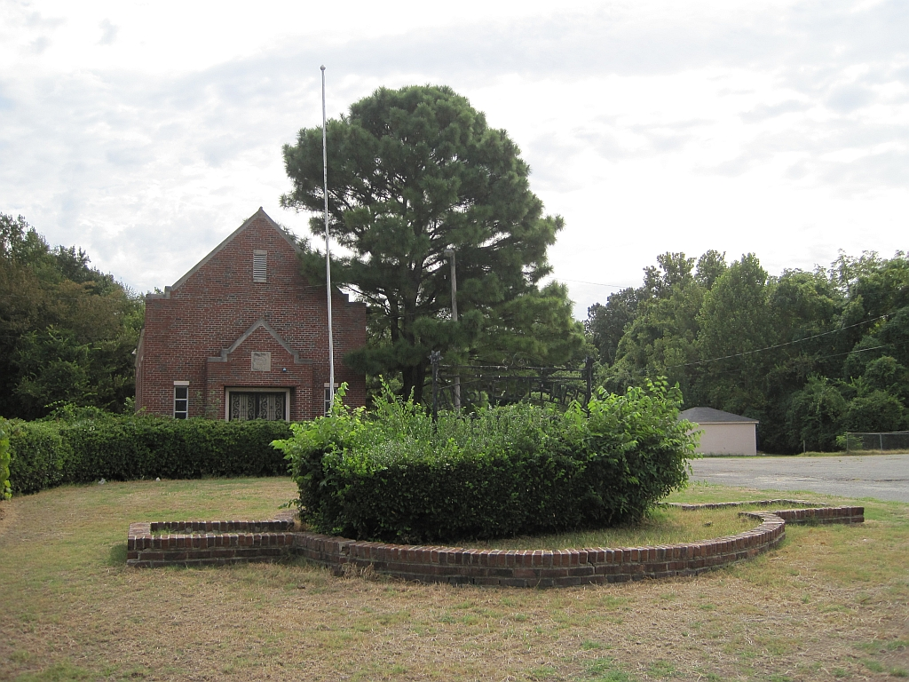 Anshei Sphard Cemetery on Airways Boulevard, ca. 1/4 mile east of Ketchum Road in Memphis, Tennessee Katzman Memorial Chapel